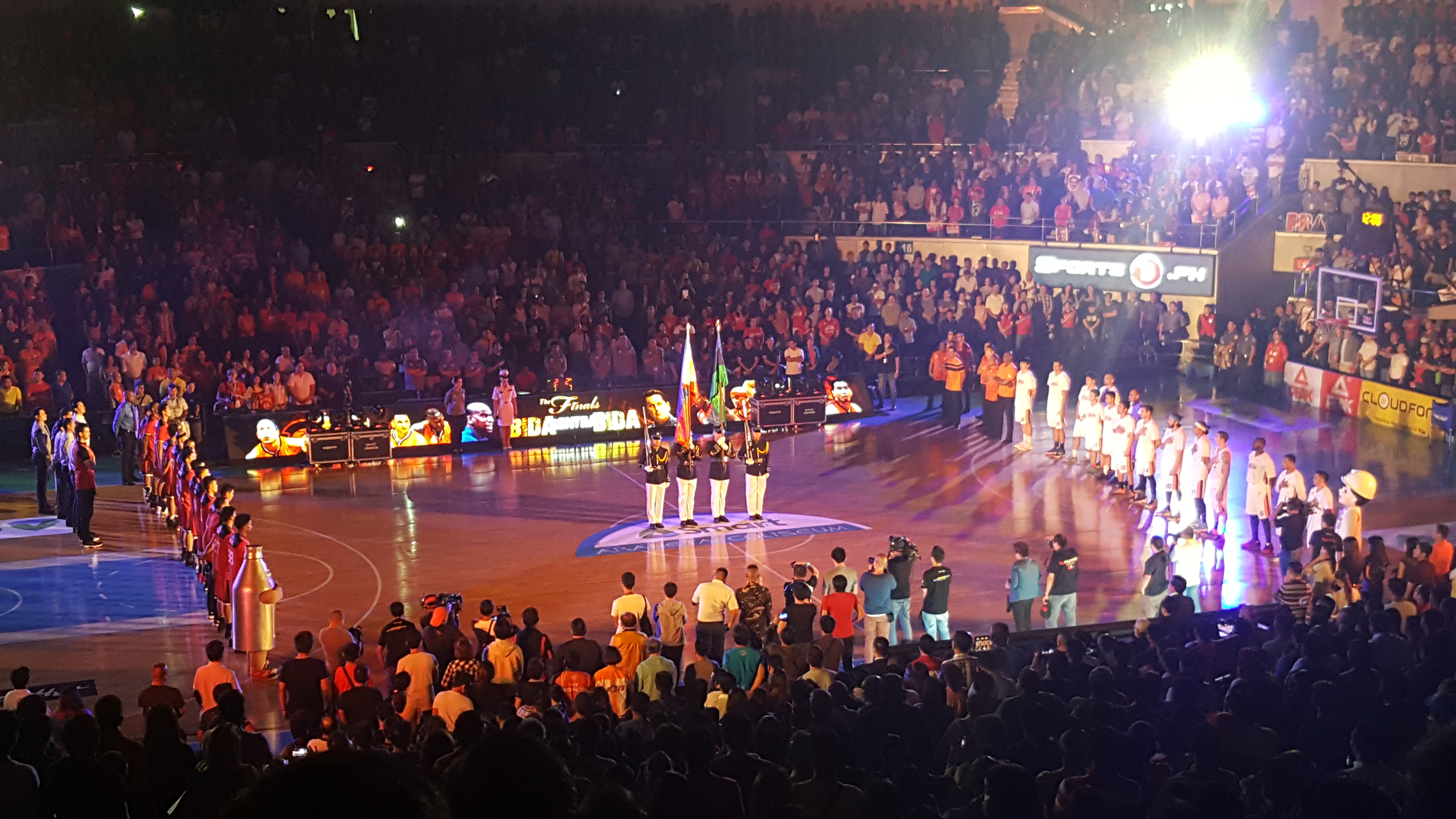 PBA - 2016 Governors' Cup Finals - Barangay Ginebra vs Meralco (Game 1) - 2016-1007